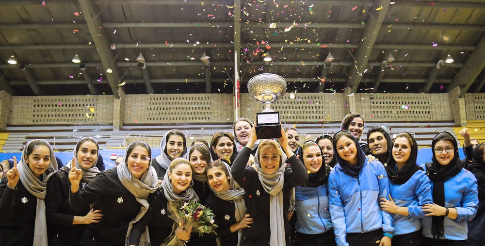 Iranian Basketball Super League 1396